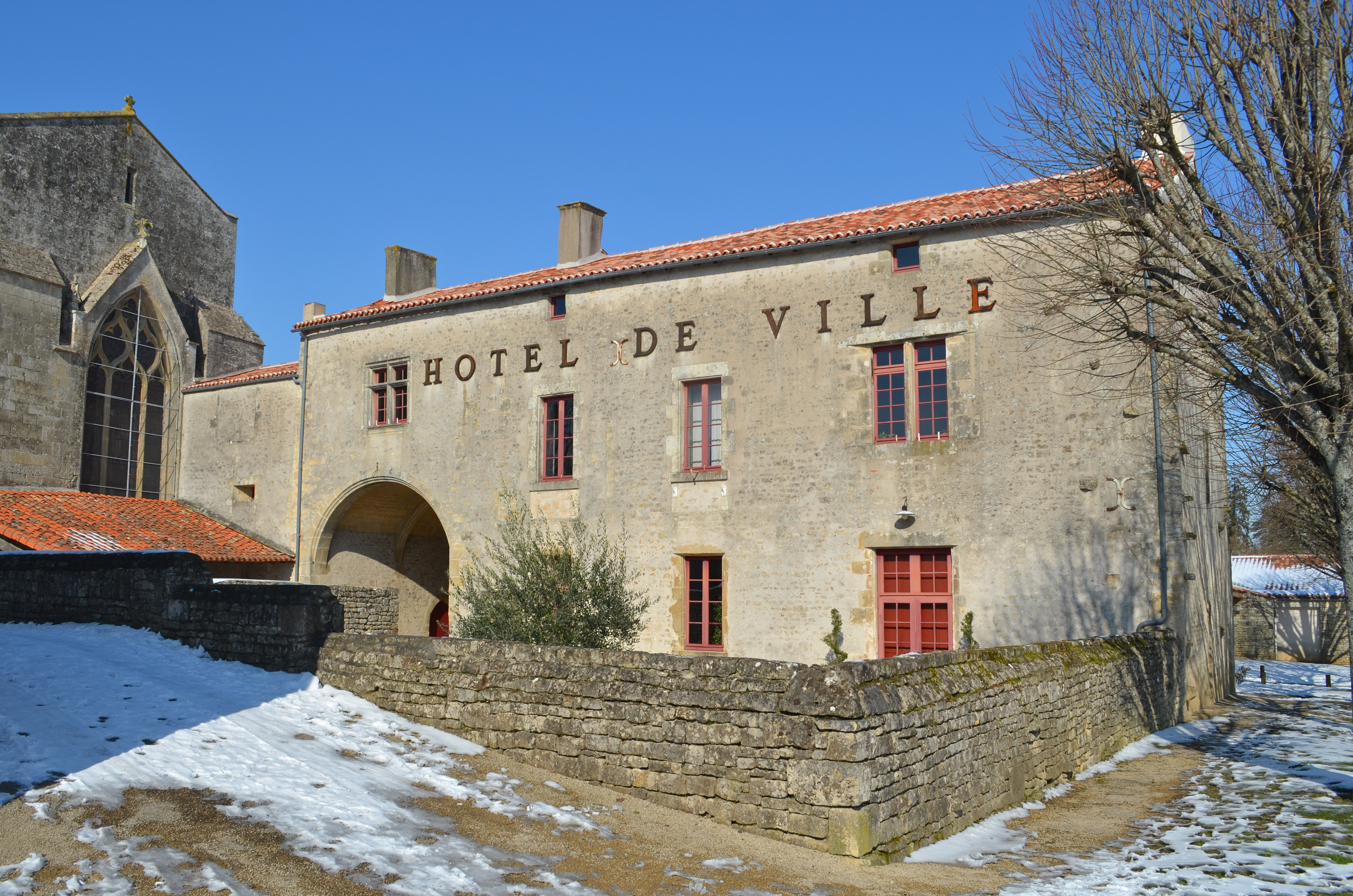 City hall in an old priory - Foussais-Payré (Vendée, France) .